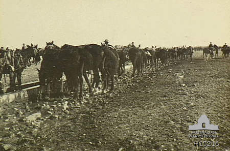 Horses from the 12th Light Horse Regiment drinking water at Beersheba, c. 1917